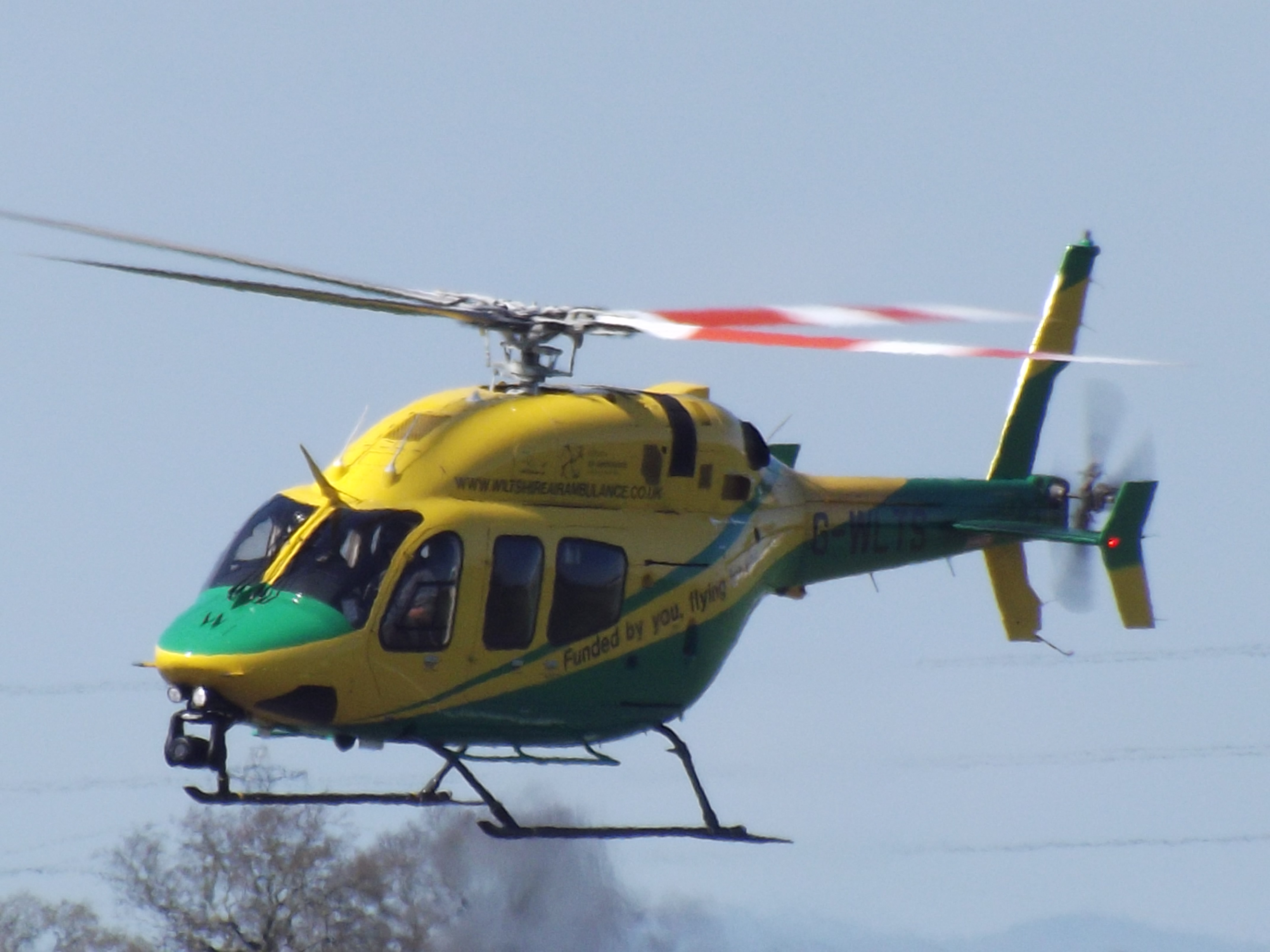 G-WLTS Bell 429 Helicopter Wiltshire Air Ambulance